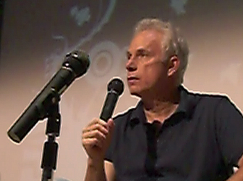 Christopher Guest speaking at Vancouver Film School, July 18th, 2008.